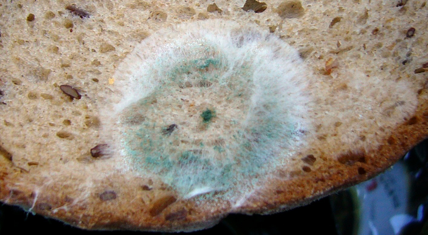 Mold on a slice of bread.